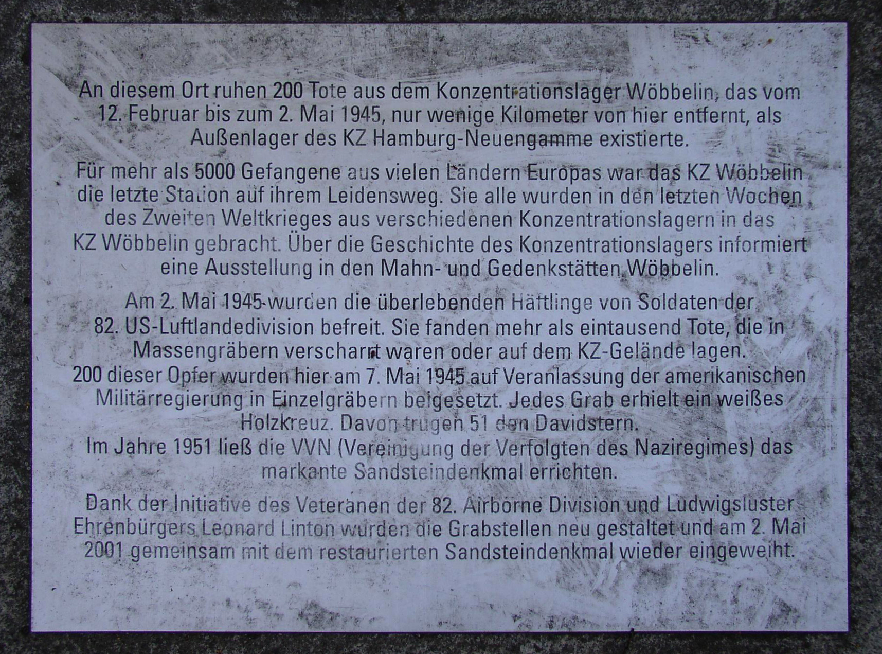 Memorial plaque Wöbbelin concentration camp in Ludwigslust in Mecklenburg-Western Pomerania, Germany